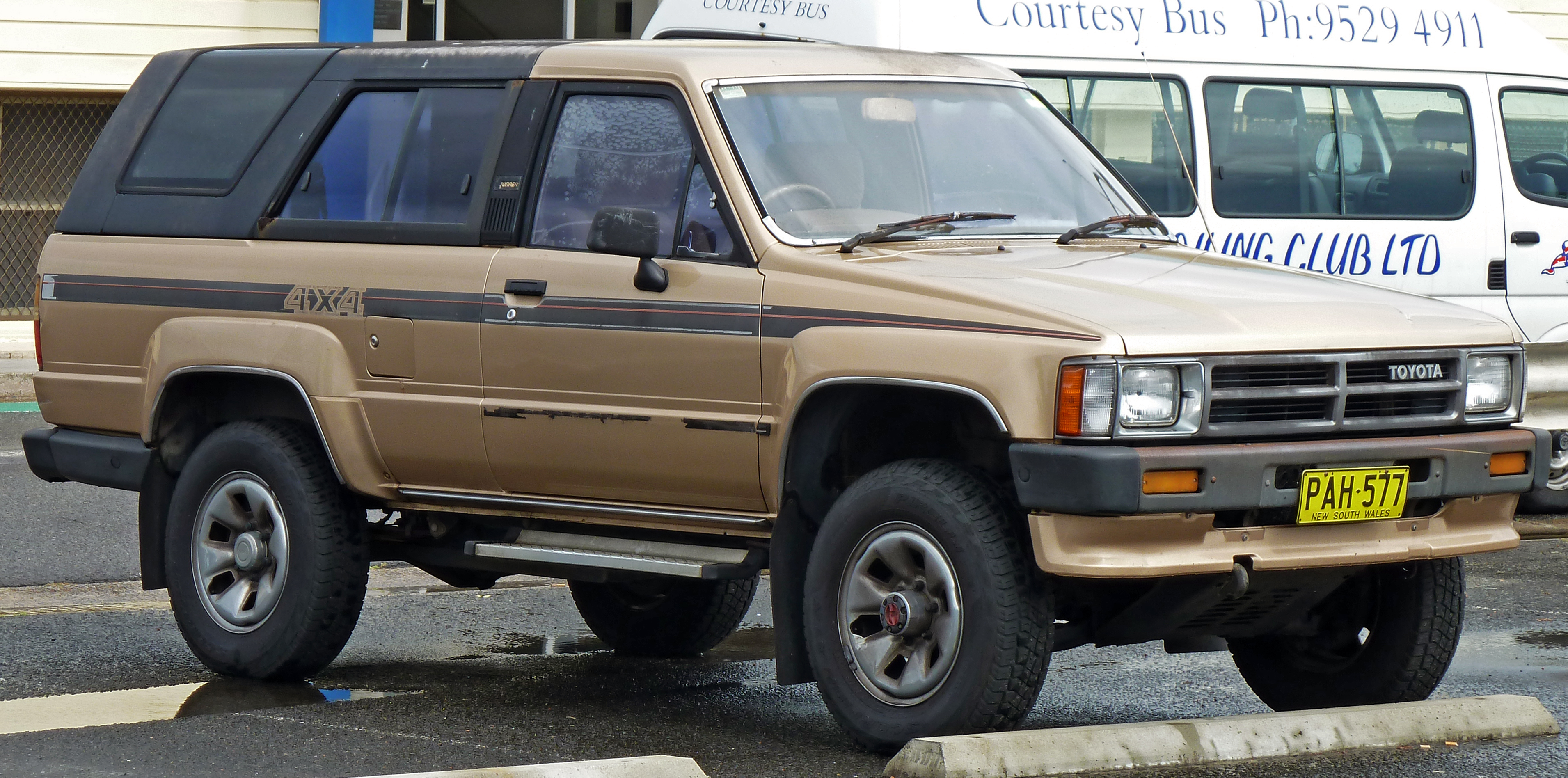 1988 Toyota Hilux 4Runner SR5 wagon. Photographed in Sans Souci, New South Wales, Australia.